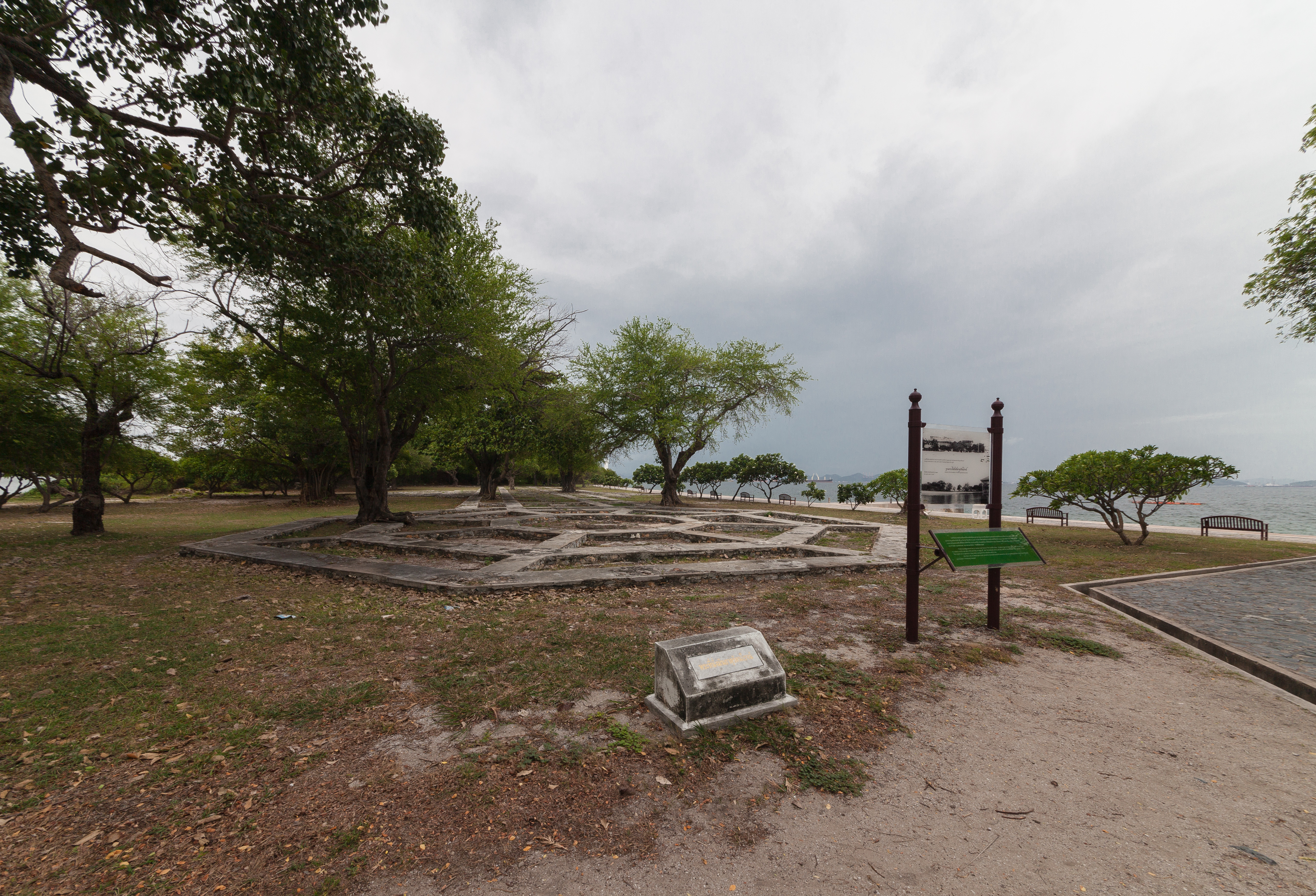 The Munthatu Rattanarot Base in Phra Chuthathut Palace, Sichang island, Chon Buri.